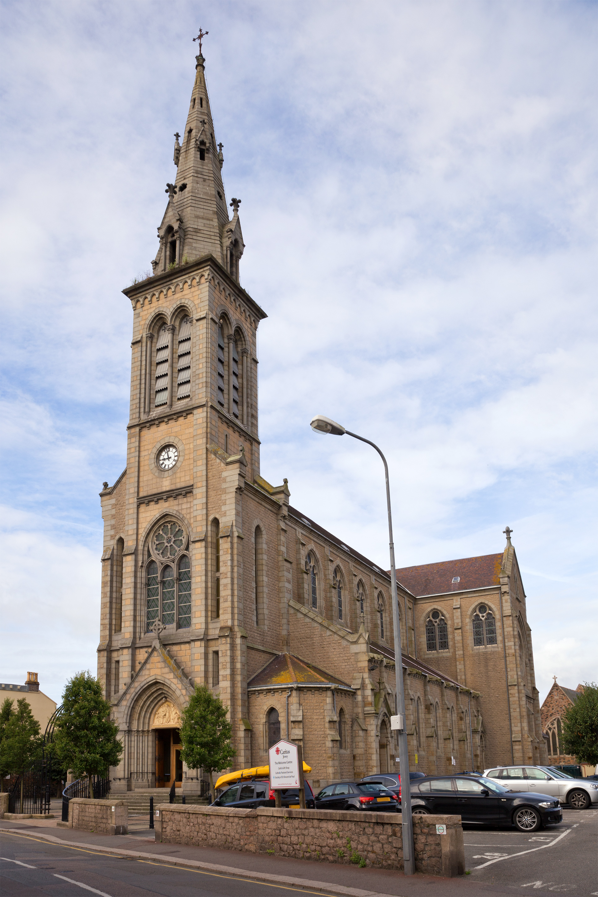 St Thomas, Catholic Church in St Helier, Island of JerseyEsperanto: St Thomas, Katolika preĝejo en St Helier, Insulo Jersey